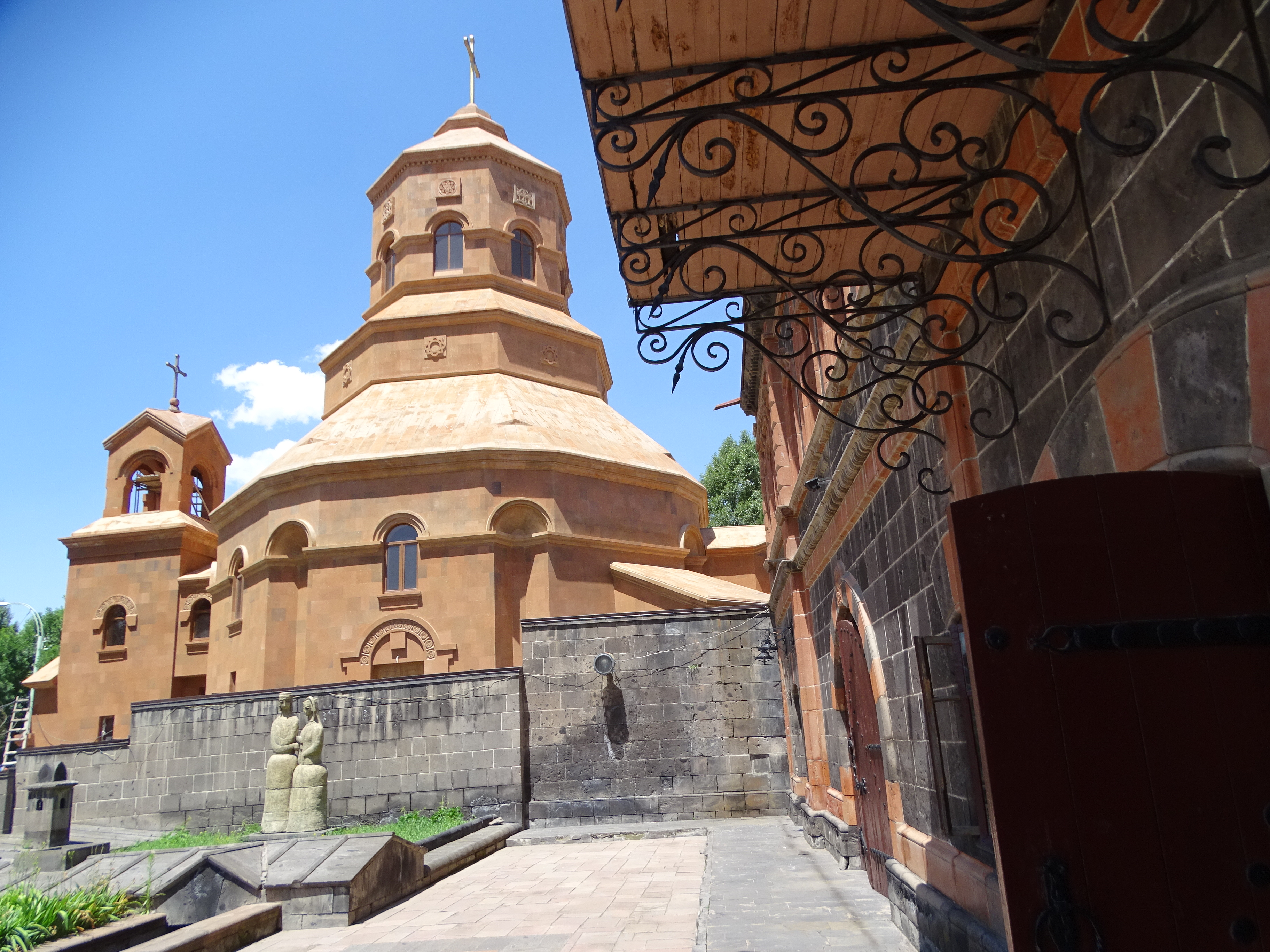 Surp Khach Cathedral Gyumri, Armenia, June 2015.